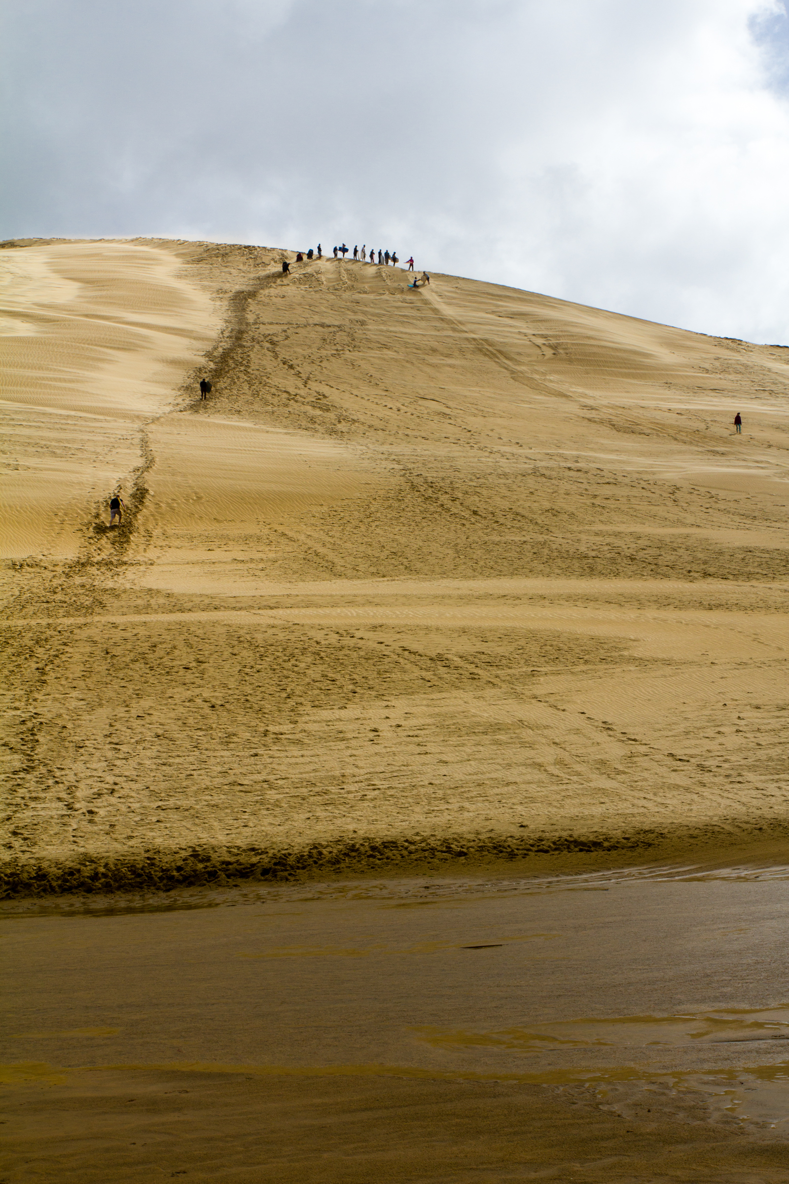 Sandboarding on the Te Paki Sand Dunes, 90-mile-beach, New Zealand